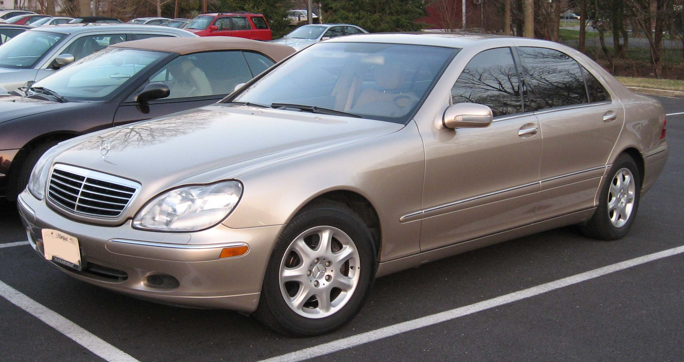 2001-2006 Mercedes-Benz S430 photographed in USA.